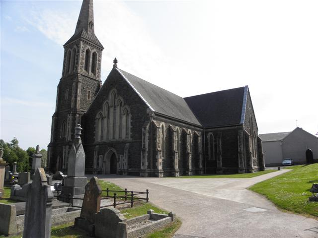 Magherafelt Presbyterian Church in Magherafelt, County Londonderry, Northern Ireland